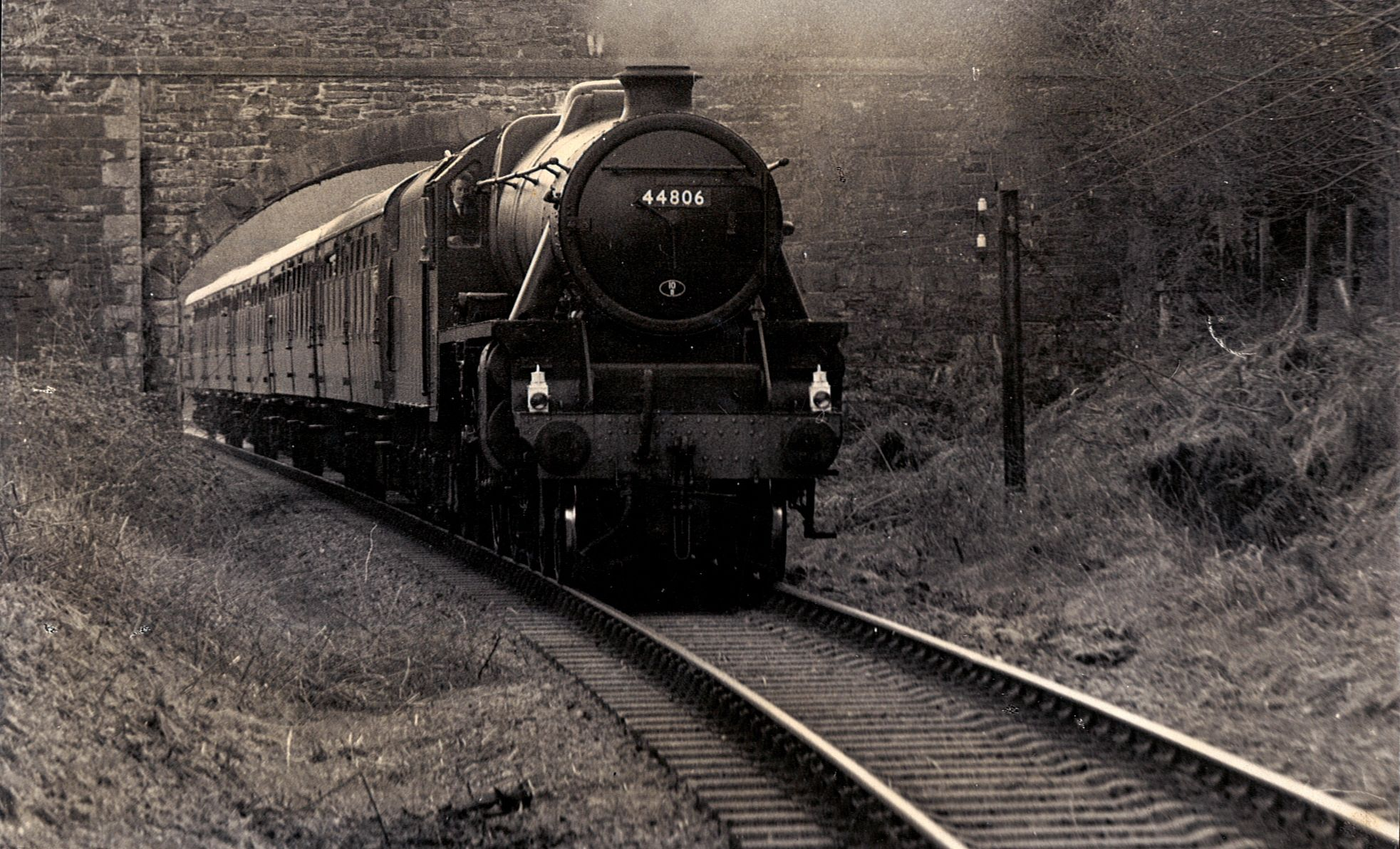 Black Five 44806 approaching Newby Bridge